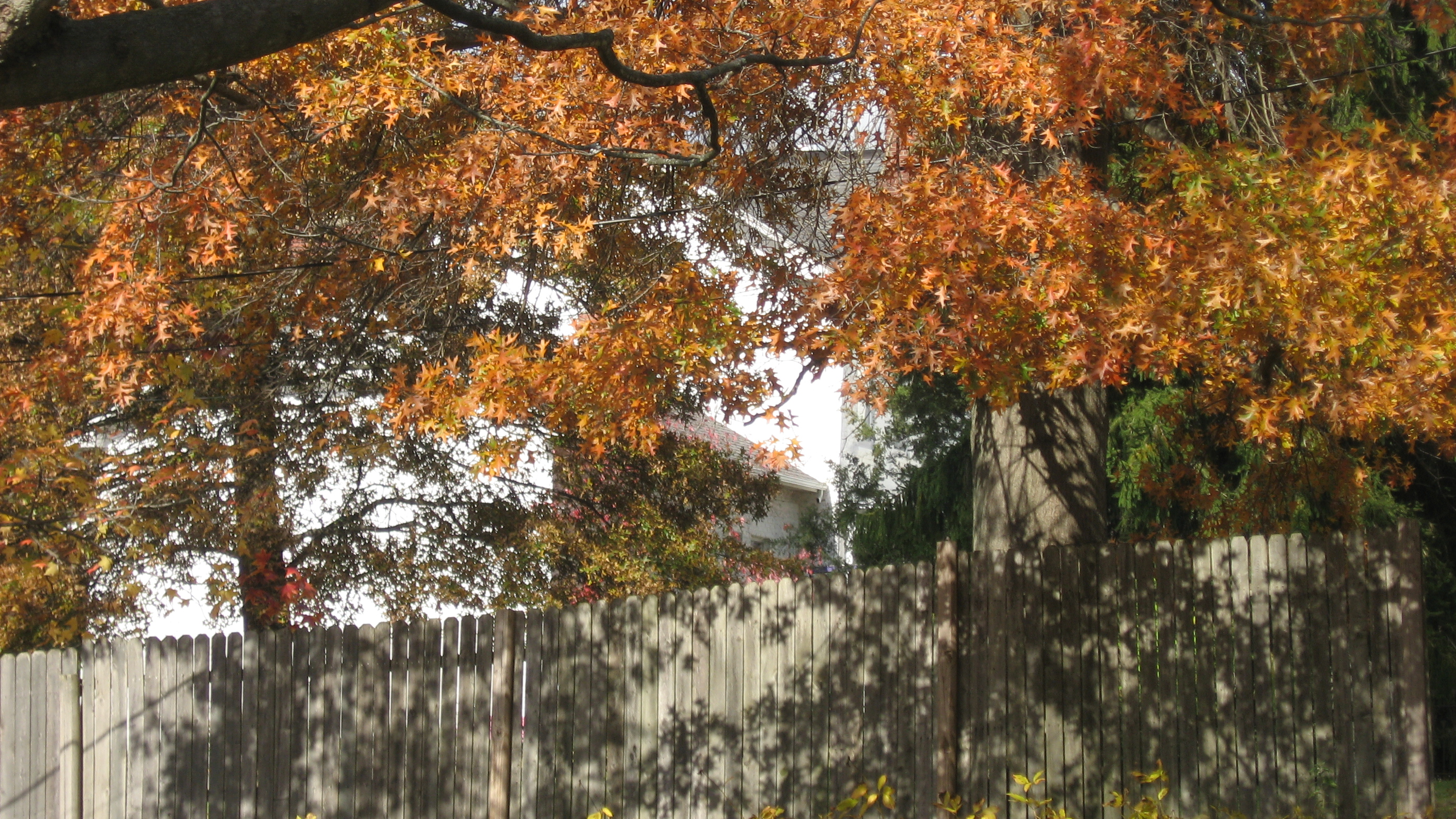 View through the trees of the Alfred Hirt House, located at the northern end of S125W just west of Greencastle in Greencastle Township, Putnam County, Indiana, United States. Built in 1880, it is listed on the National Register of Historic Places.